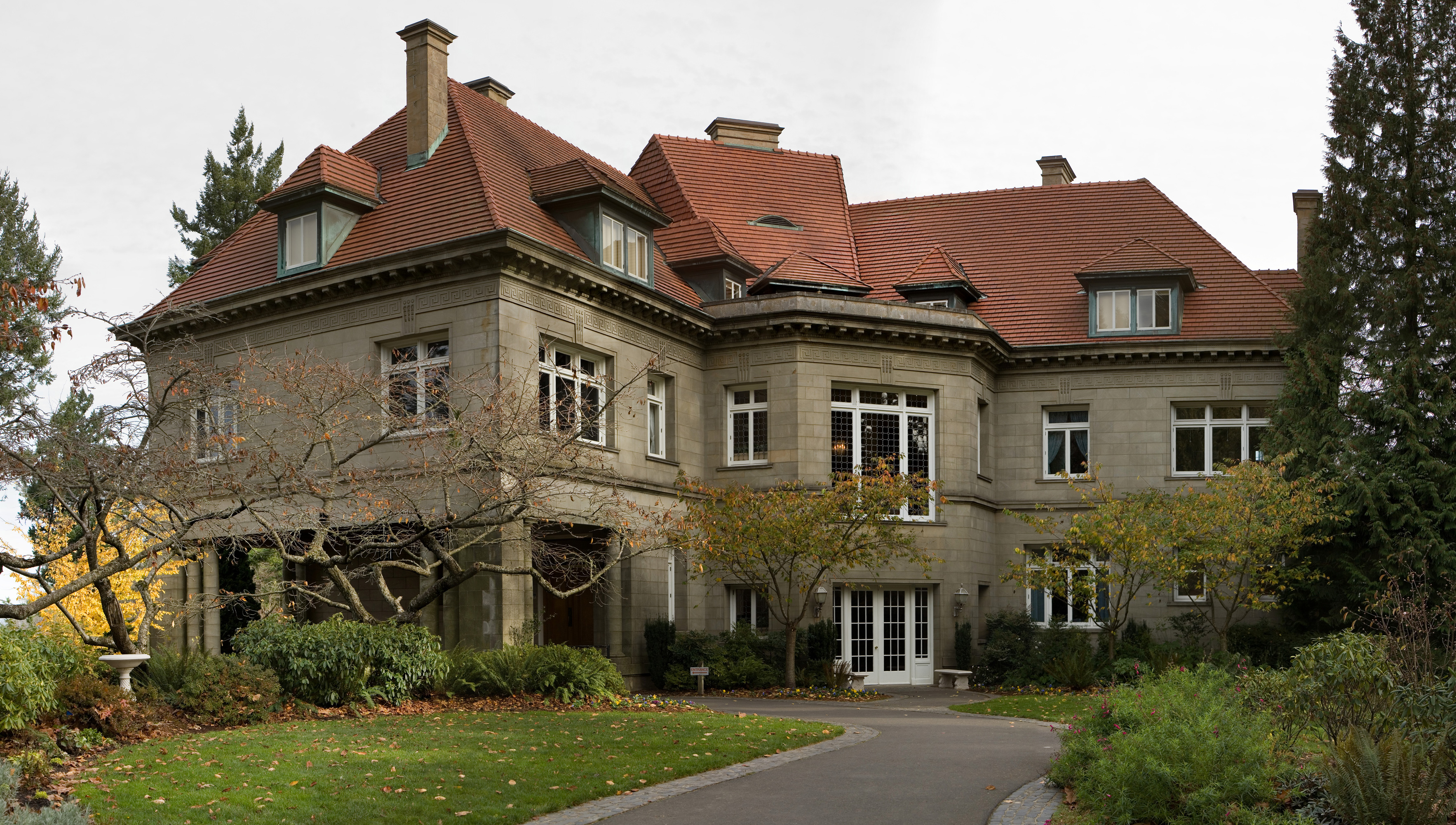 Pittock Mansion in Portland, Oregon. This is the west façade, or front, where the main entrance is located.